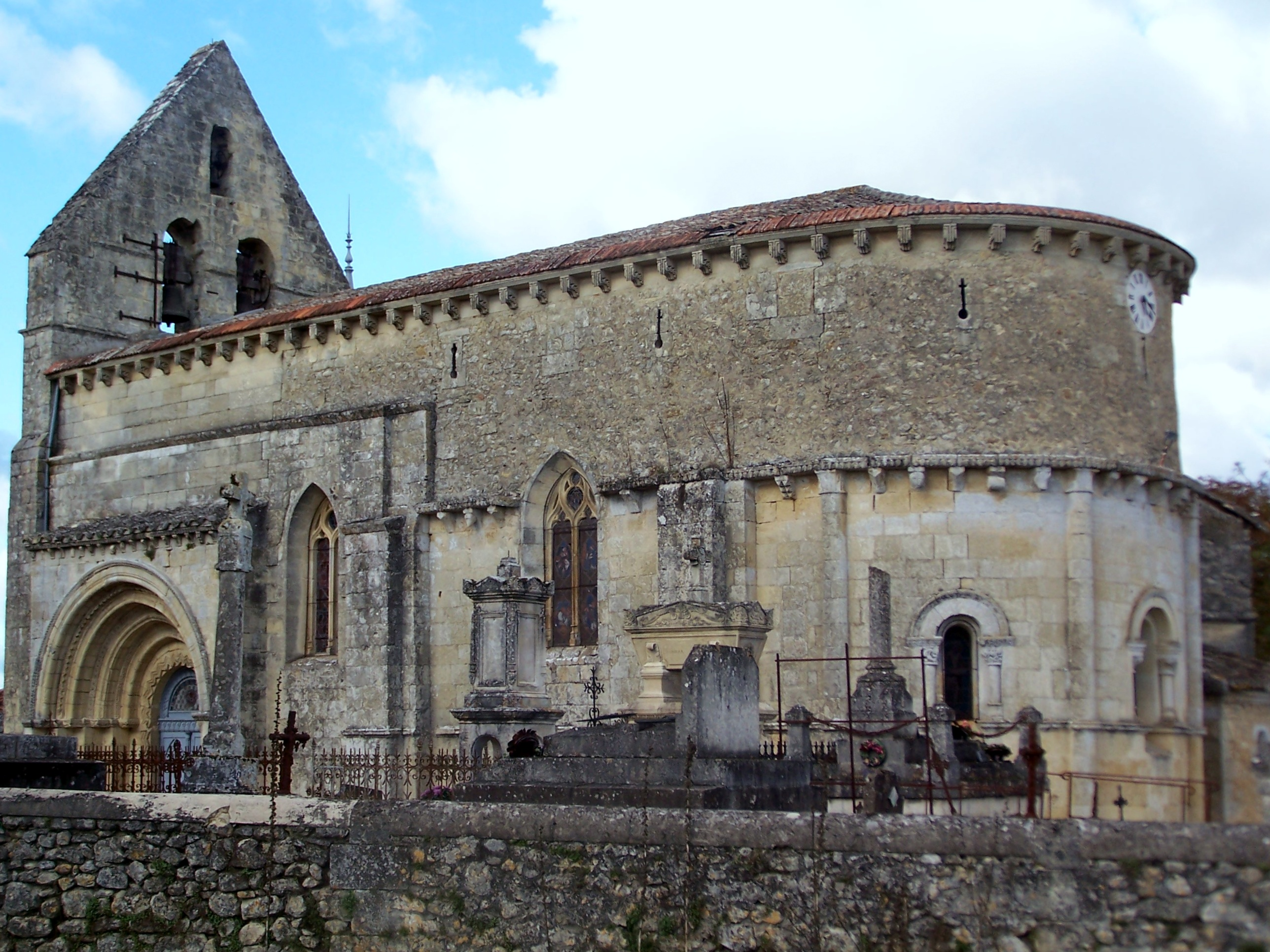 Saint-Vivien church of Romagne (Gironde, France)